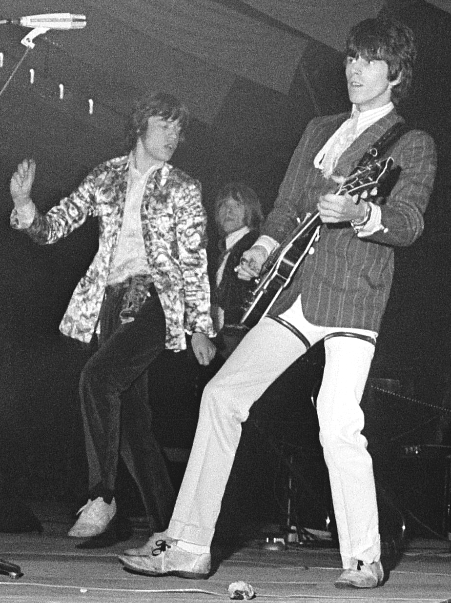 Rolling Stones in concert, Houtrusthallen in The Hague (NL), 15 April 1967. This is a cropped and retouched (removed scratches and spots, edited brightness, sharpened) version of the image from the Nationaal Archief.